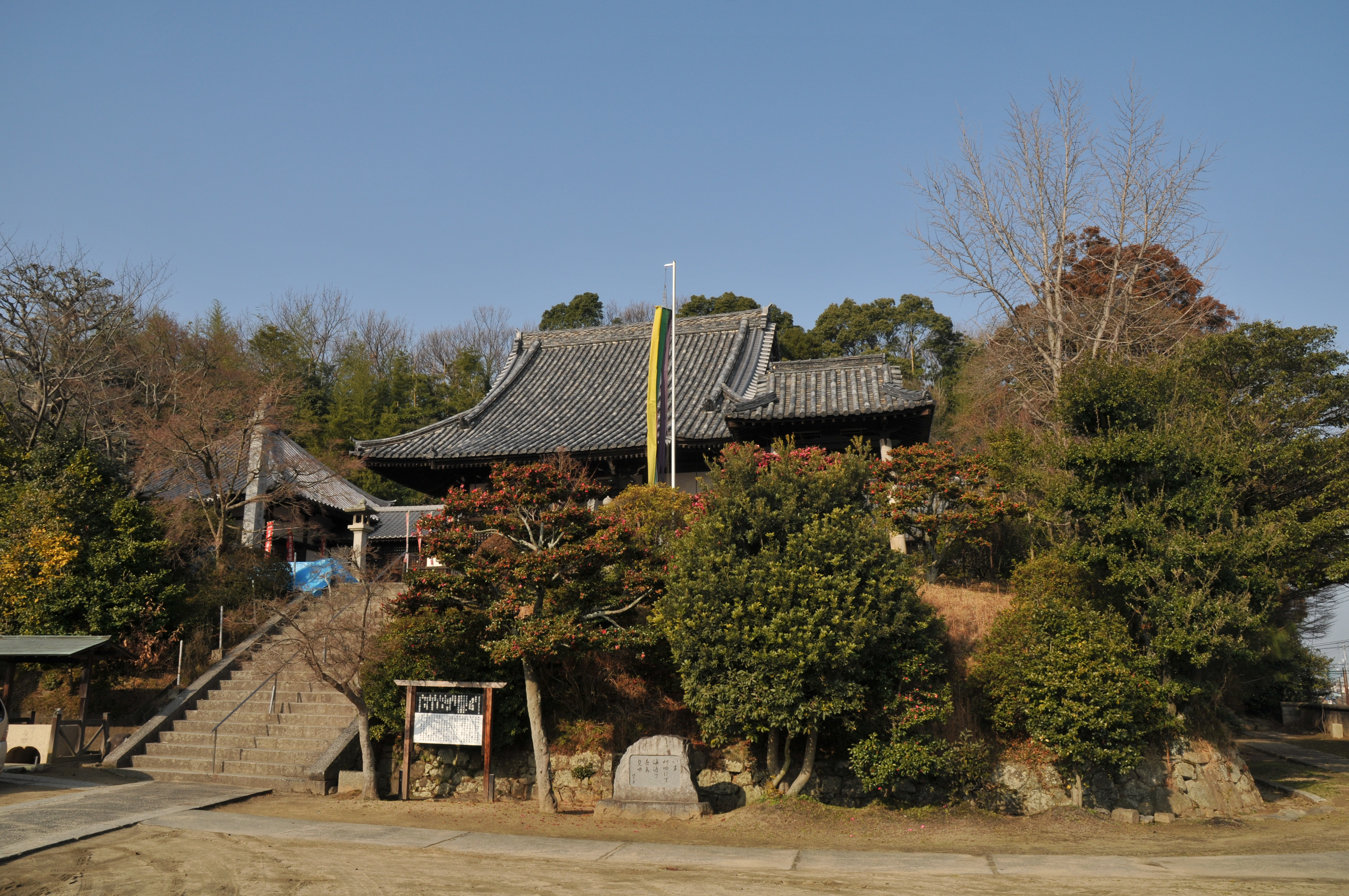 Fujito-ji temple precincts